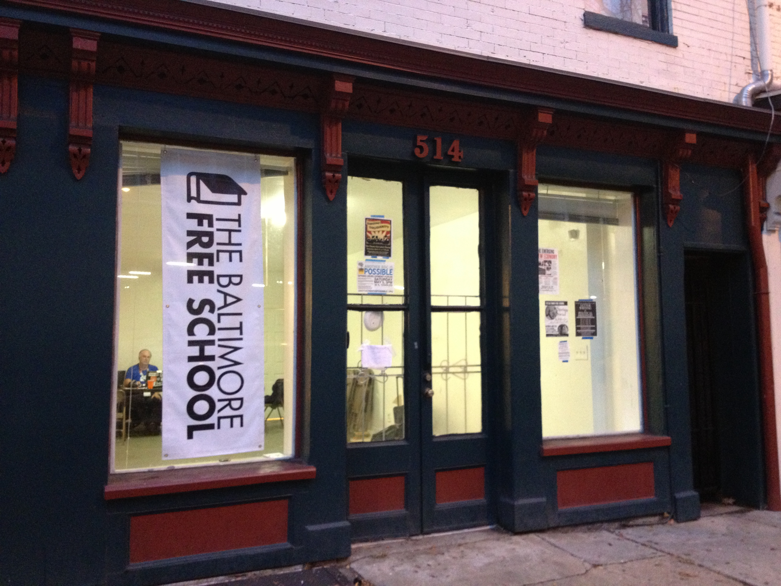 Baltimore Free School, 516 W. Franklin St., Baltimore, MD. Taken Dec. 8, 2012.